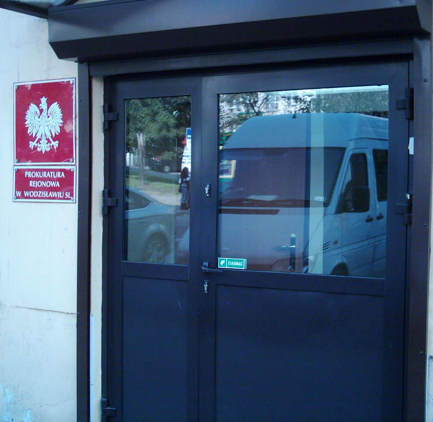 Regional prosecutor's office in Wodzisław Śląski